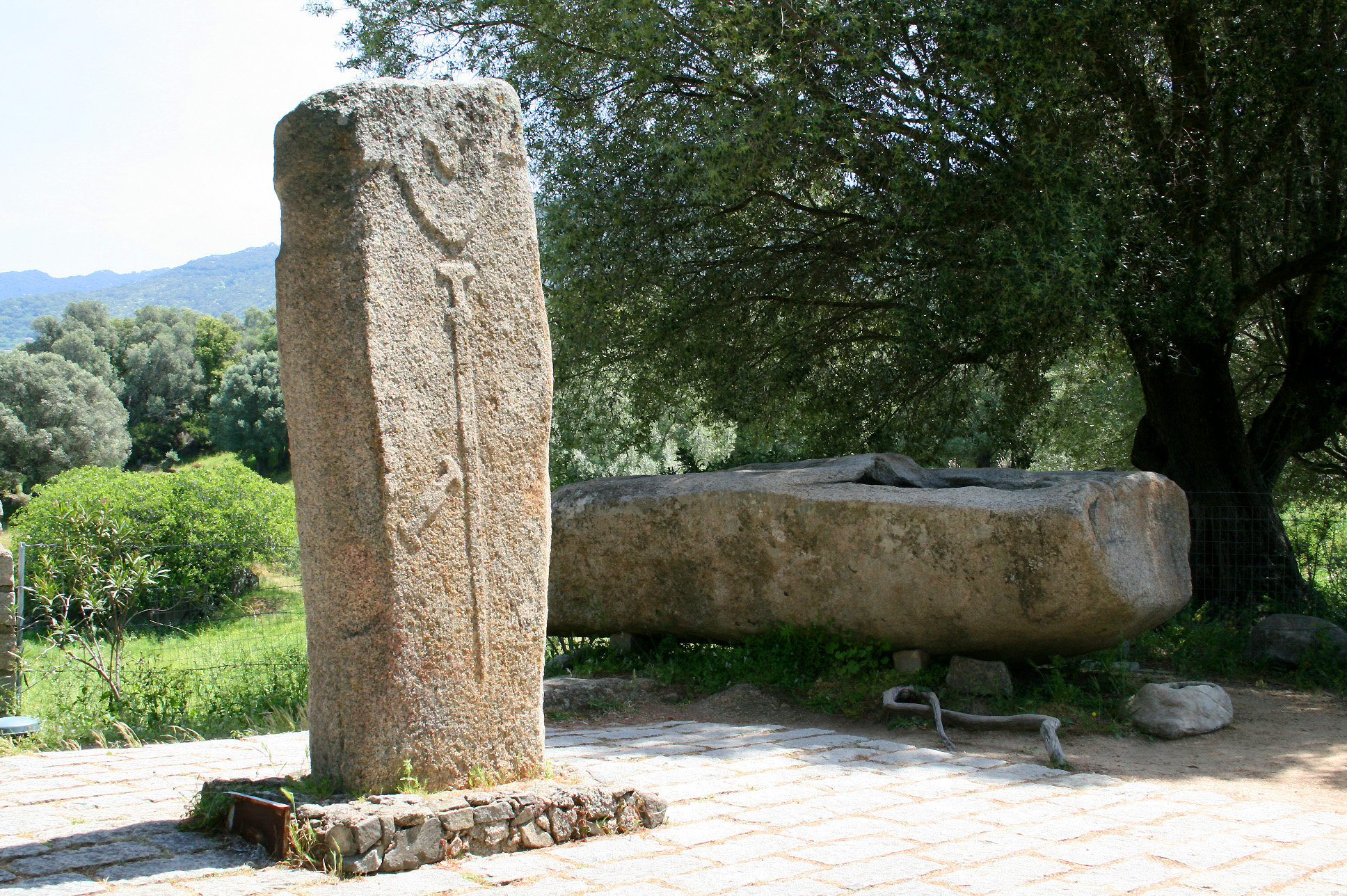 Filitosa (Corse-du-Sud), France, the menhir Filitosa V. Walon: Filitosa (Corse-du-Sud) - France, li statuwe mènîr Filitosa V.